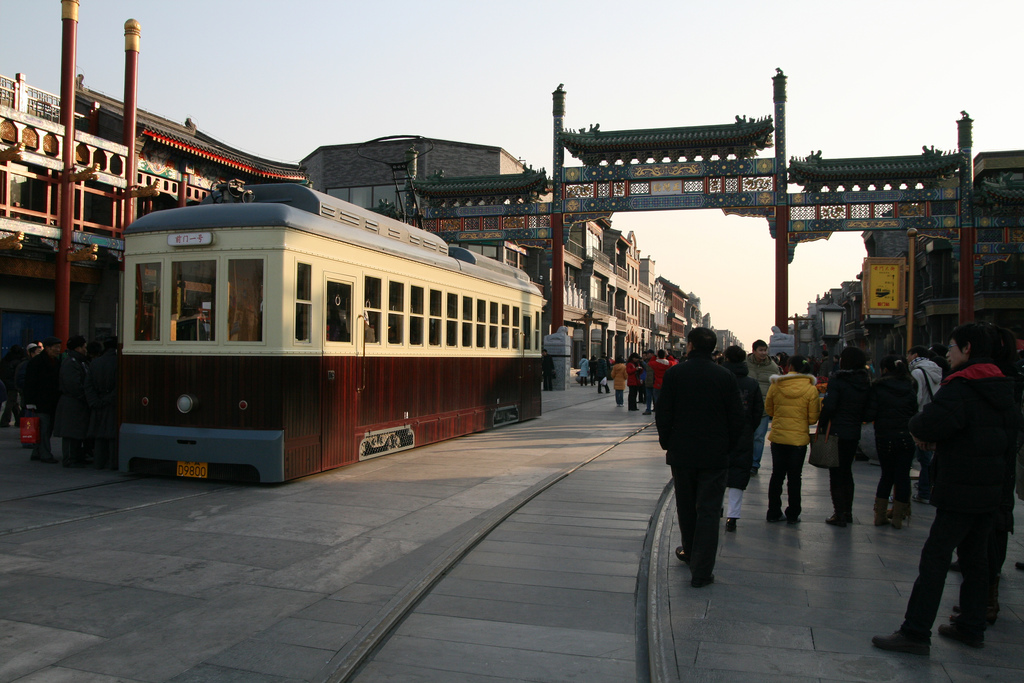 The Qianmen Street in Beijing, China.